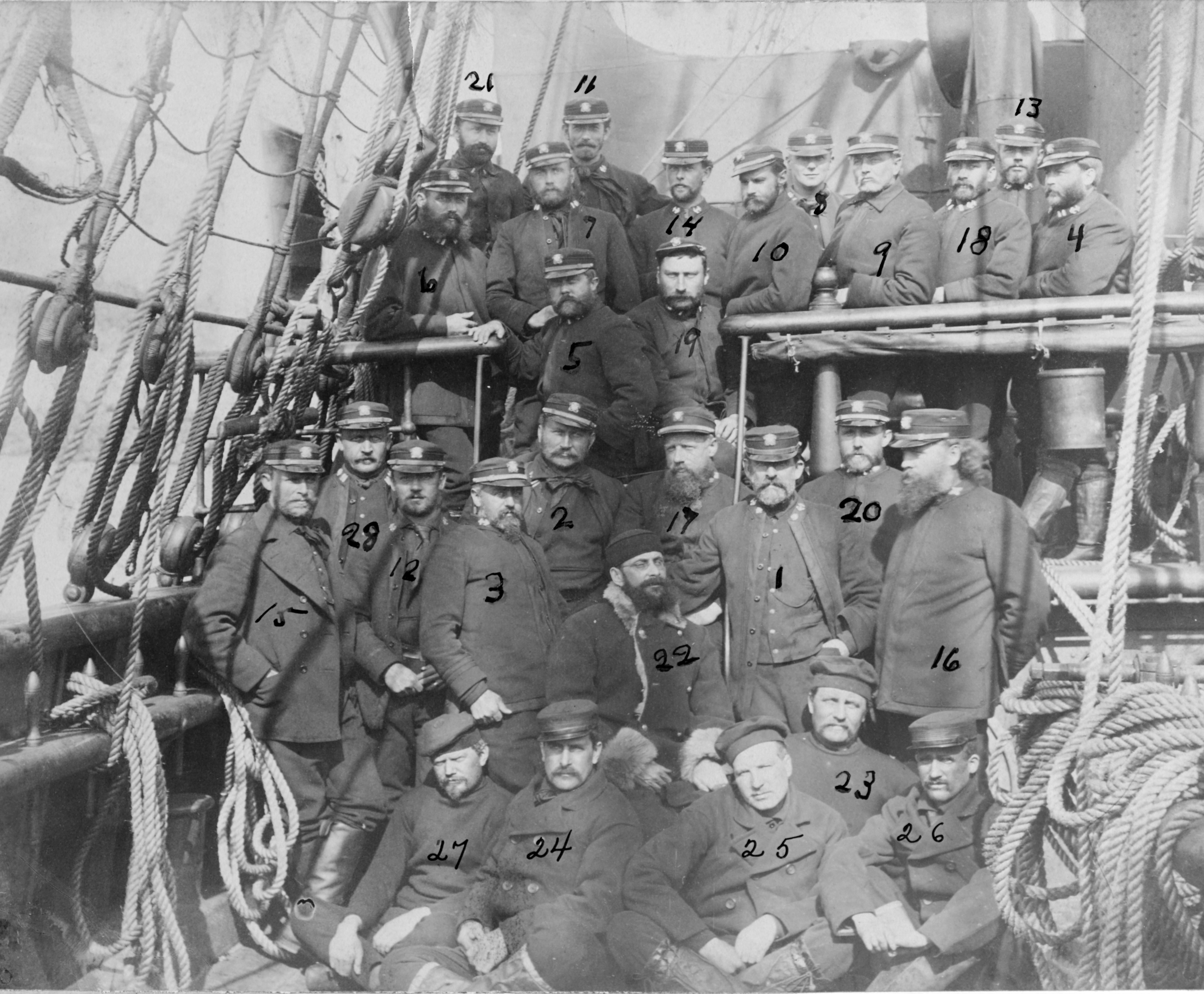 Greely Relief Expedition, 1884 The six survivors of the U.S. Army's Greely Arctic expedition with their U.S. Navy rescuers, at Upernavik, Greenland, 2-3 July 1884. Probably photographed on board USS Thetis. Those present are (as numbered on the original print): 1. Commander Winfield S. Schley, USN, commanding officer, Greely Relief Expedition, and of USS Thetis; 2. Lieutenant William H. Emory, Jr., commanding officer of USS Bear; 3. Commander George W. Coffin, USN, commanding officer of Steamer Alert; 4. Lieutenant Emory H. Taunt, USN, Thetis; 5. Lieutenant (Junior Grade) Samuel C. Lemly, USN, Thetis; 6. Lieutenant Freeman H. Crosby, USN, Bear; 7. Lieutenant (Junior Grade) John C. Colwell, USN, Bear; 8. Lieutenant (Junior Grade) Nathaniel R. Usher, USN, Bear; 9. Lieutenant (Junior Grade) Charles J. Badger, USN, Alert; 10. Lieutenant (Junior Grade) Henry J. Hunt, USN, Alert; 11. Ensign Washington I. Chambers, USN, Thetis; 12. Ensign Charles H. Harlow, USN, Thetis; 13. Ensign Lovell K. Reynolds, USN, Bear; 14. Ensign Charles S. McClain, USN, Alert; 15. Ensign Albert A. Ackerman, USN, Alert; 16. Chief Engineer George W. Melville, USN, Thetis; 17. Chief Engineer John Lowe, USN, Bear; 18. Passed Assistant Engineer William H. Nauman, USN, Alert; 19. Passed Assistant Surgeon Edward H. Green, USN, Thetis; 20. Passed Assistant Surgeon Howard E. Ames, USN, Bear; 21. Passed Assistant Surgeon Francis S. Nash, USN, Alert; 22. First Lieutenant Adolphus W. Greely, U.S. Army; 23. Private Julius Frederick, U.S. Army; 24. Sergeant David L. Brainard, U.S. Army; 25. Private Henry Bierderbick, U.S. Army; 26. Private Maurice Connell, U.S. Army; 27. Private Francis Long, U.S. Army; 28. Lieutenant Uriel Sebree, USN, Thetis; See file:Greely relief expedition - unlabelled.jpg for a copy of this image without the numbers. U.S. Naval Historical Center Photograph. Photo #: NH 2875-A